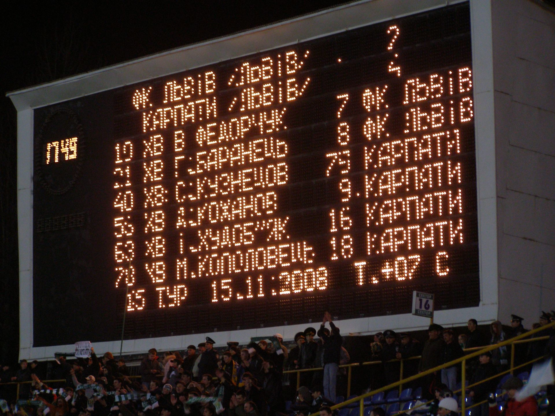 Scoreboard of Ukrayina Stadium after the final whistle of Lviv derby: FC Lviv vs FC Karpaty Lviv